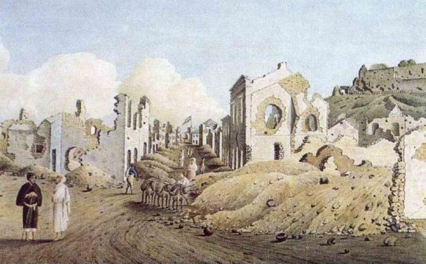 Main Street after the Siege by Captain Davis looking North. Image comes from Gibraltar Museum and its provenance is established as one of a pair in The Fortifications of Gibraltar 1068-1945 by Fa and Finlayson page 28